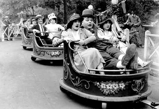 Fatty Arbuckle rides on the whip at Luna Park in Coney Island, 1917 film.